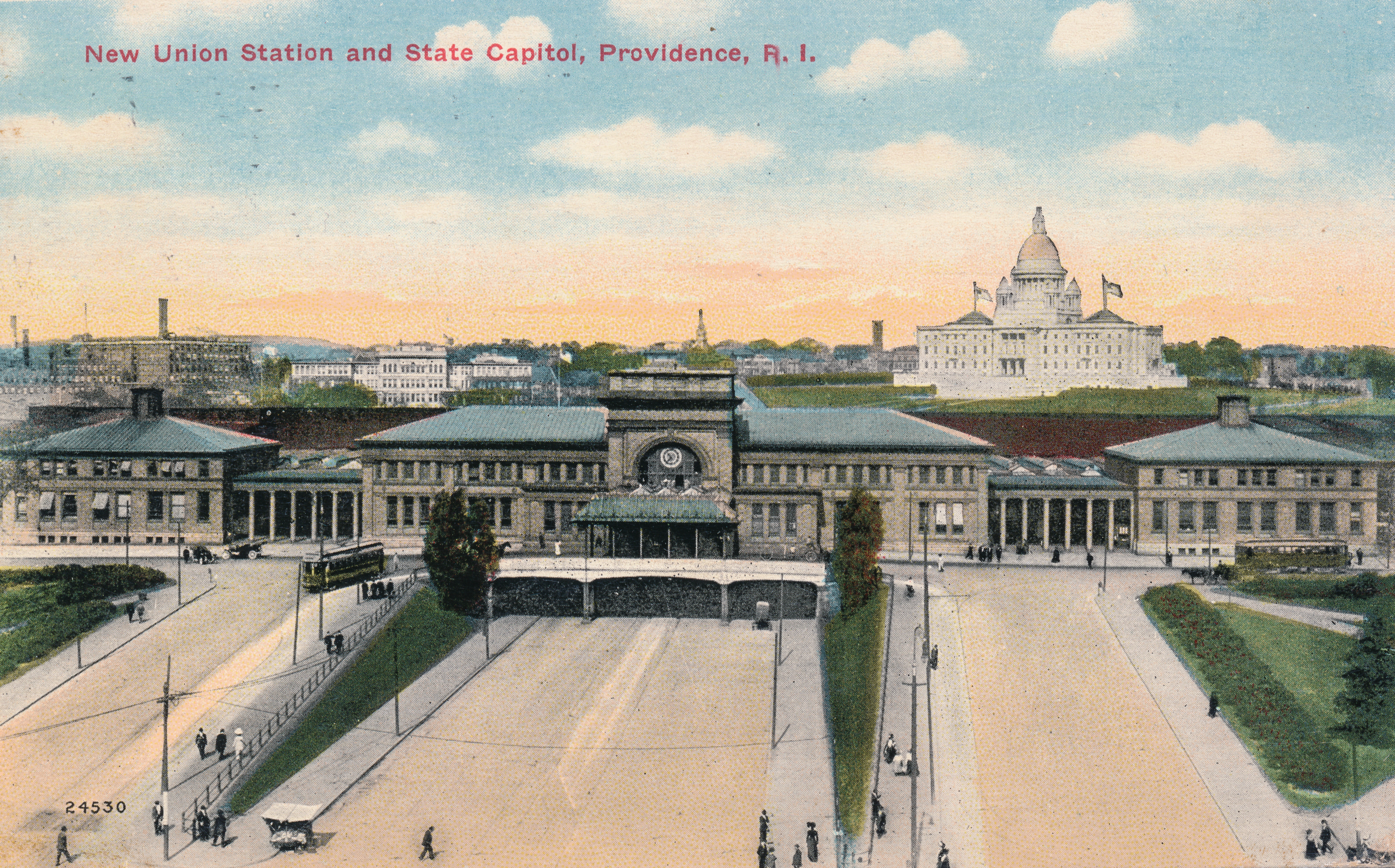 An early postcard of the former Union Station in Providence, Rhode Island.